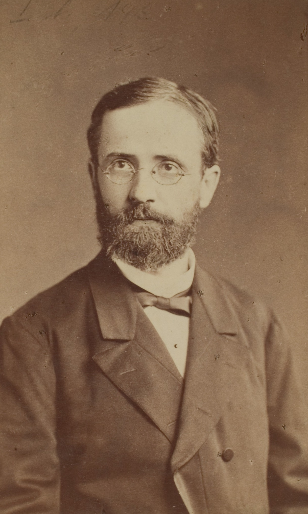 Adolf Hausrath, Theologe, 1867–1906 Professor in Heidelberg; Pseudonym: George Taylor